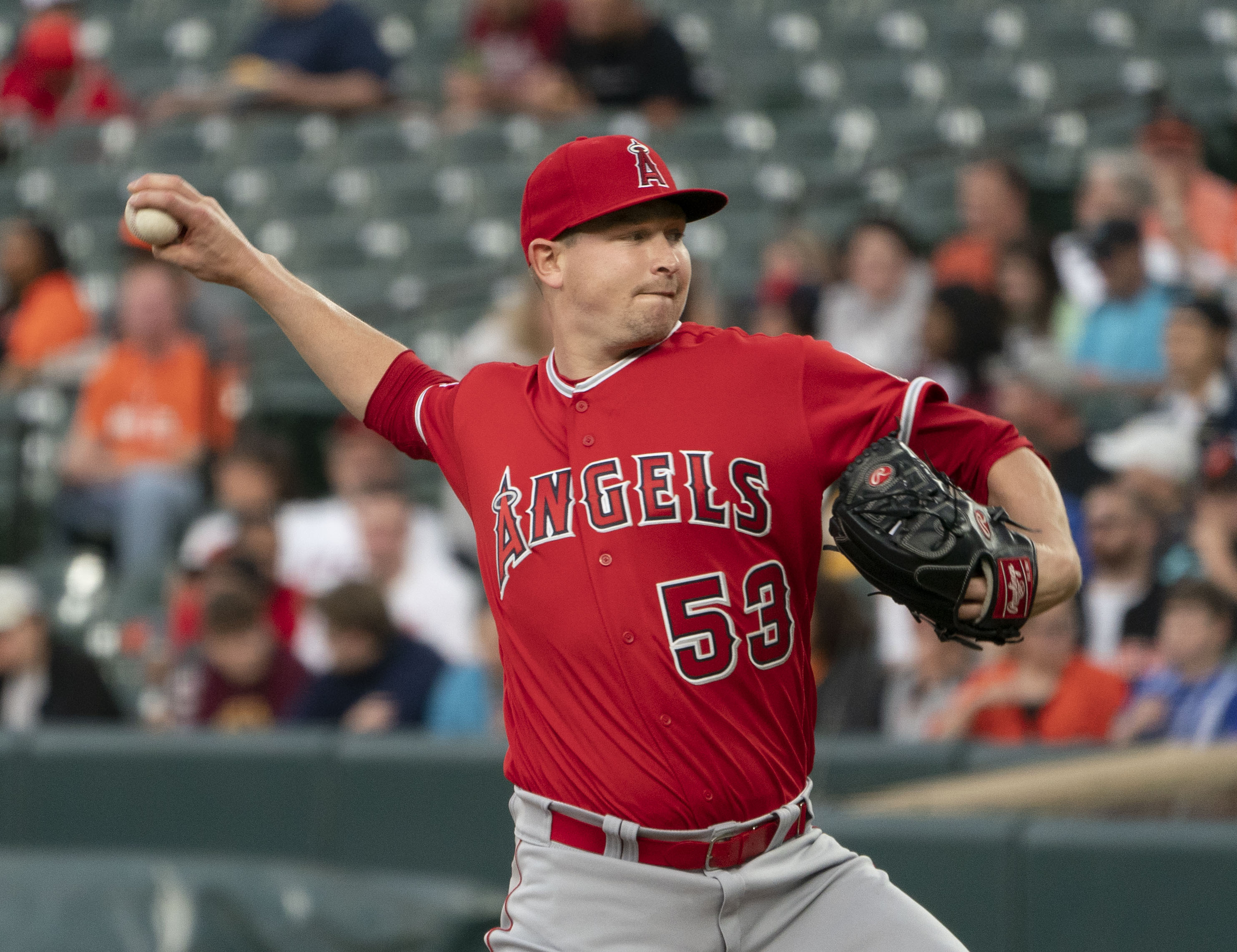 Trevor Cahill of the Los Angeles Angels pitches in a game against the Baltimore Orioles at Oriole Park at Camden Yards on May 10, 2019 in Baltimore, Maryland.